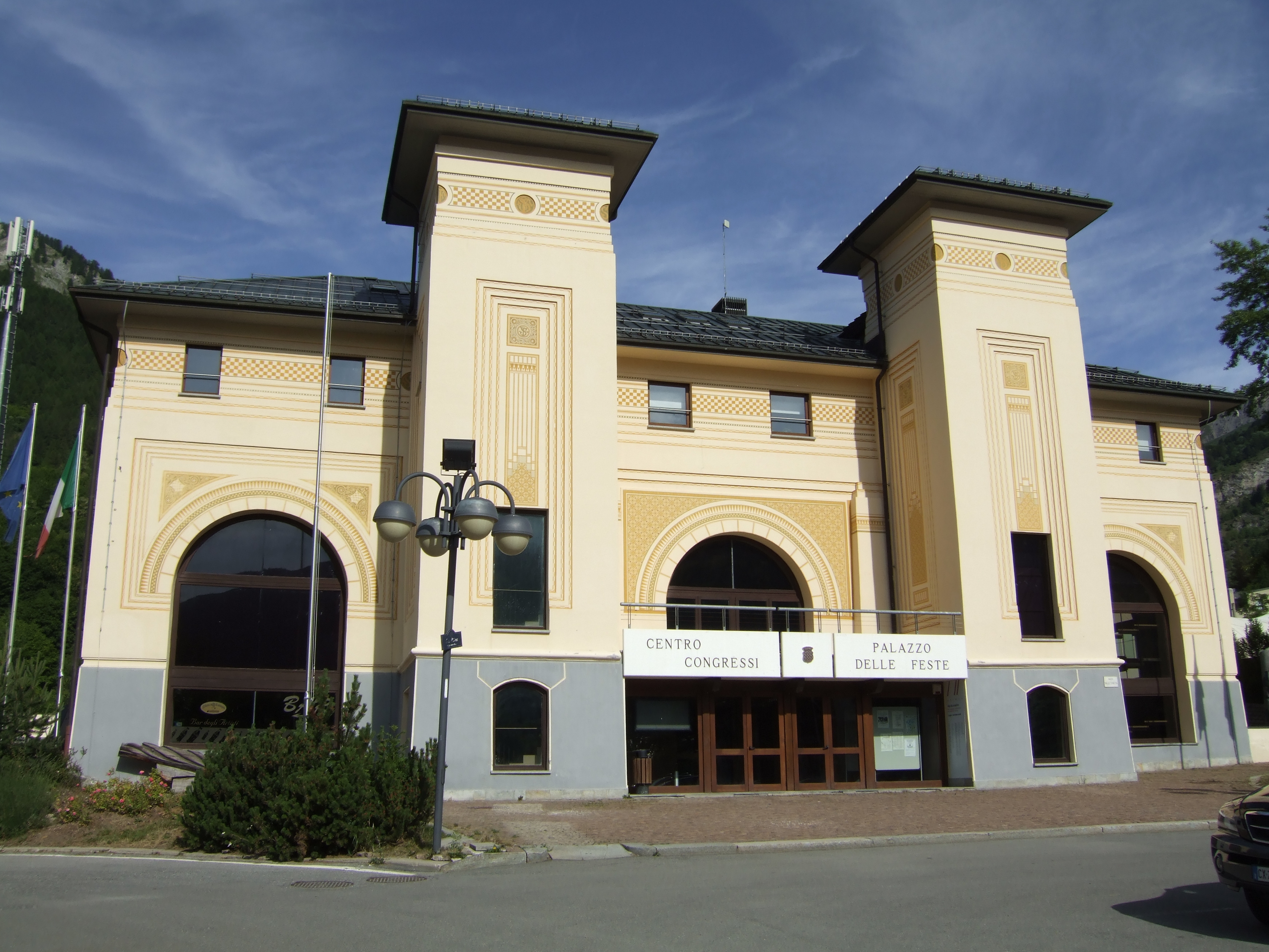 Palazzo delle Feste in Bardonecchia (Italy)